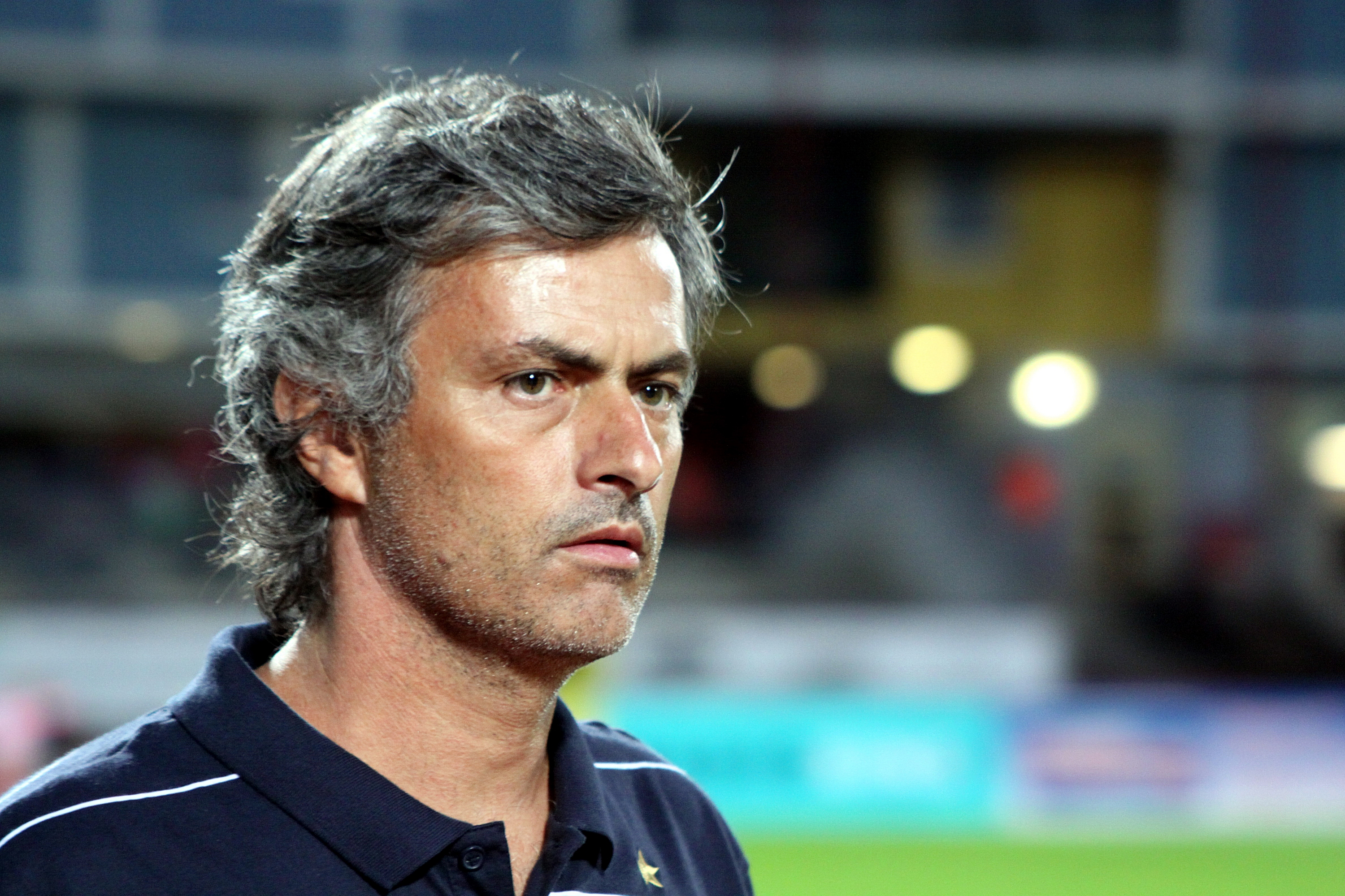 José Mourinho - F.C. Internazionale Milano